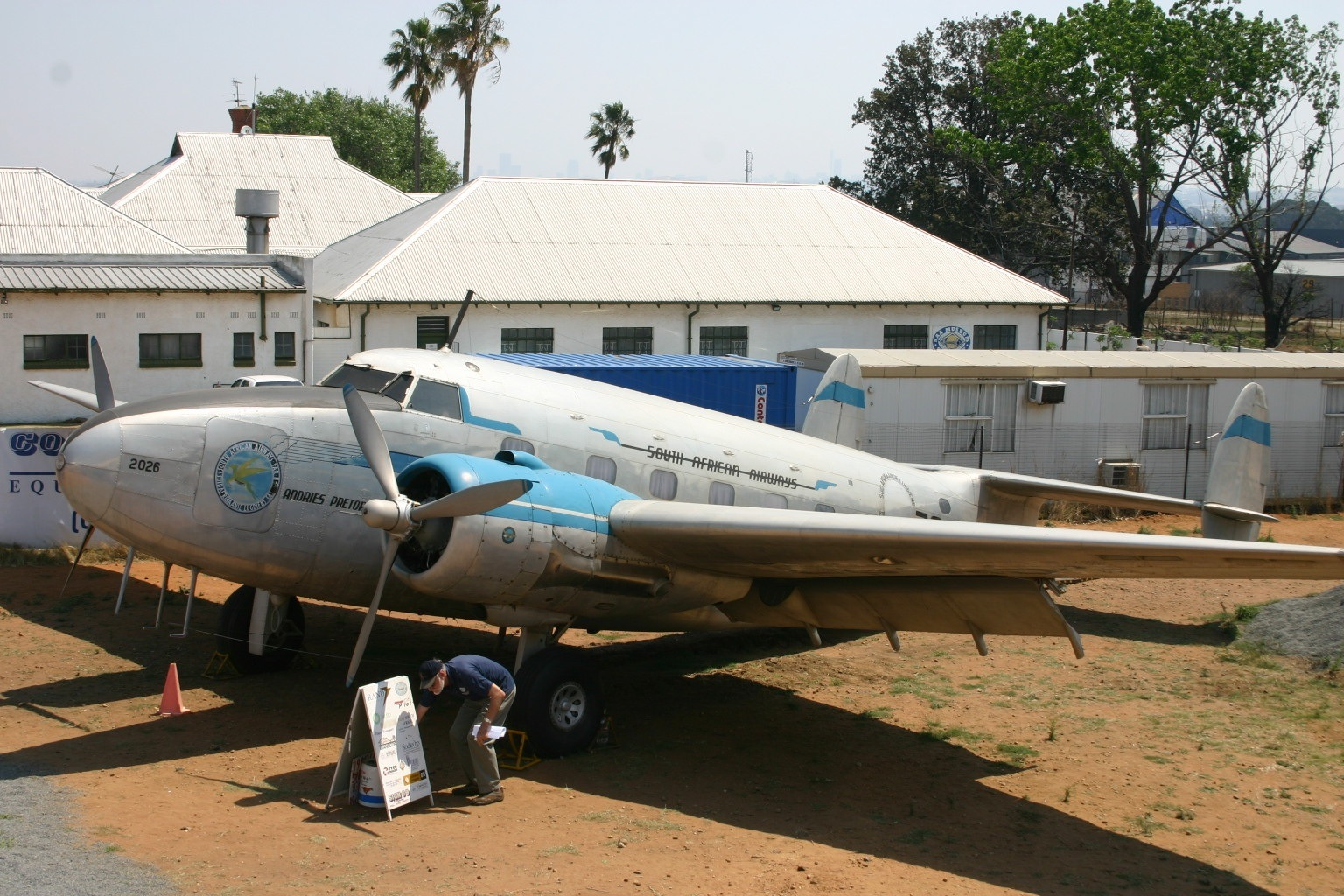 At Rand International Airport